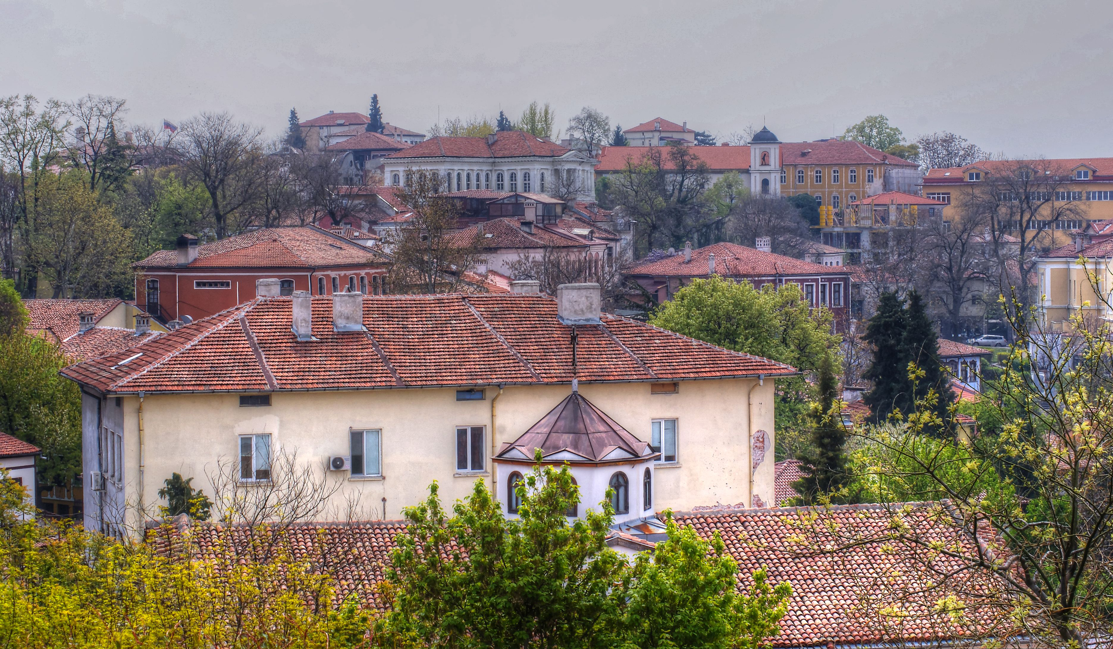 Taksim hill in Plovdiv